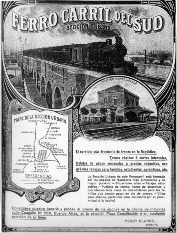 Promotional piece for the Ferrocarril del Sud of Argentina, describing services and cities connected by the train.